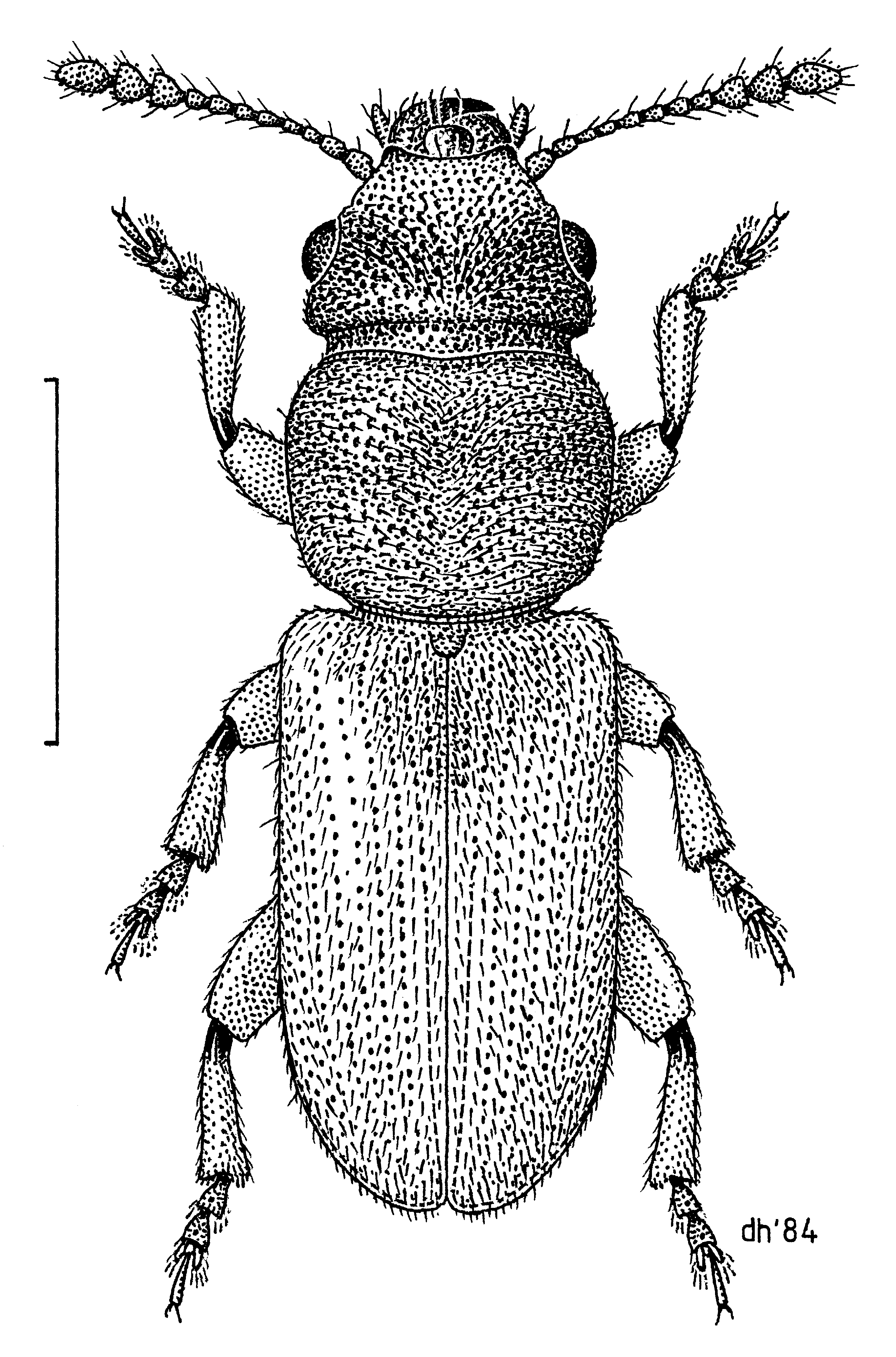 (Coleoptera: Nemonychidae) illustrated by Des Helmore. [This is Brarus mystes. It is fig. 1 in Kuschel, G.; May, B.M. 1997: A new genus and species of Nemonychidae (Coleoptera) associated with Araucaria angustifolia in Brazil. New Zealand entomologist, 20: 15-22. ... ThorpeStephen (talk) 00:37, 22 September 2018 (UTC)]